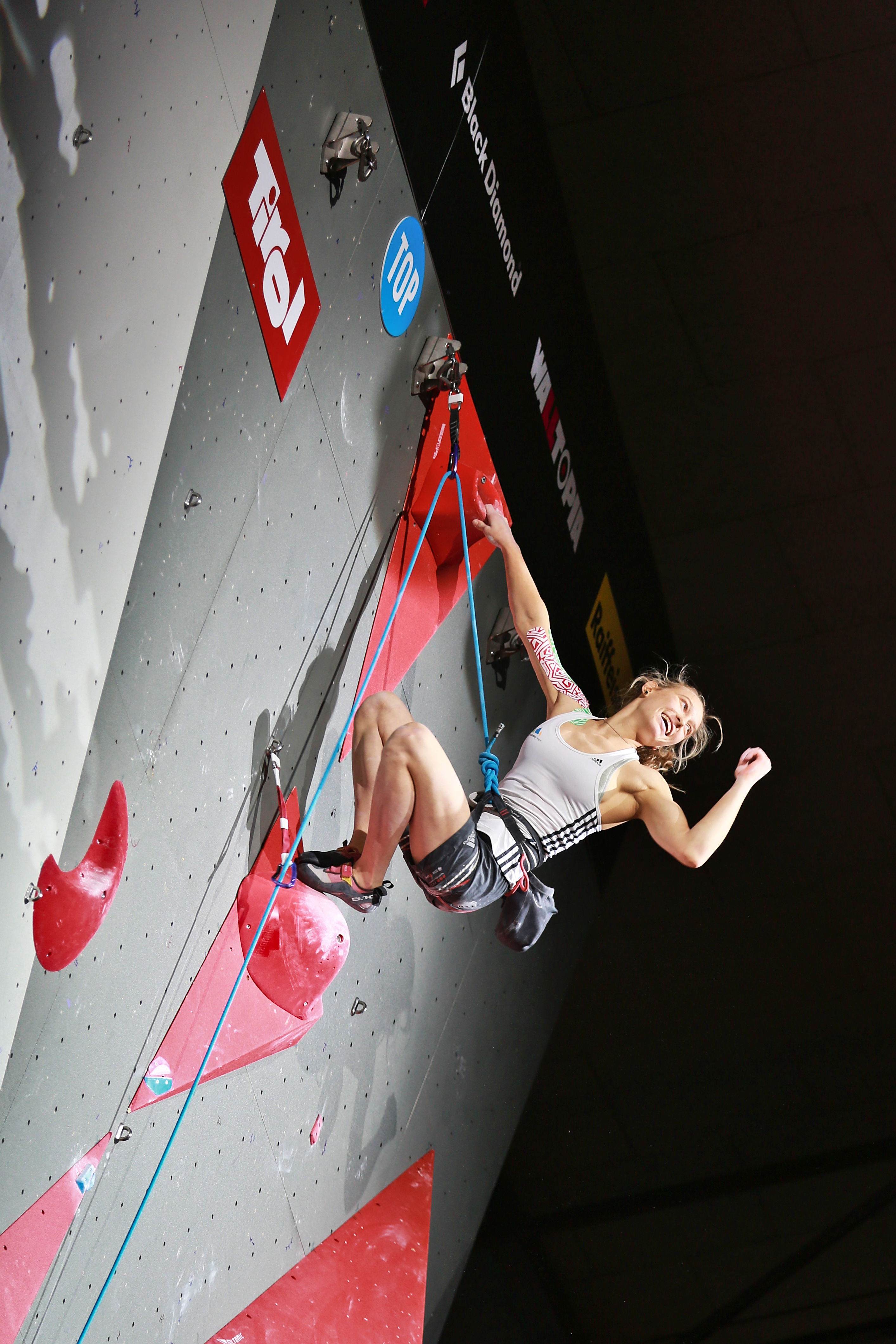 Climbing World Championships 2018 Combined Final Garnbret